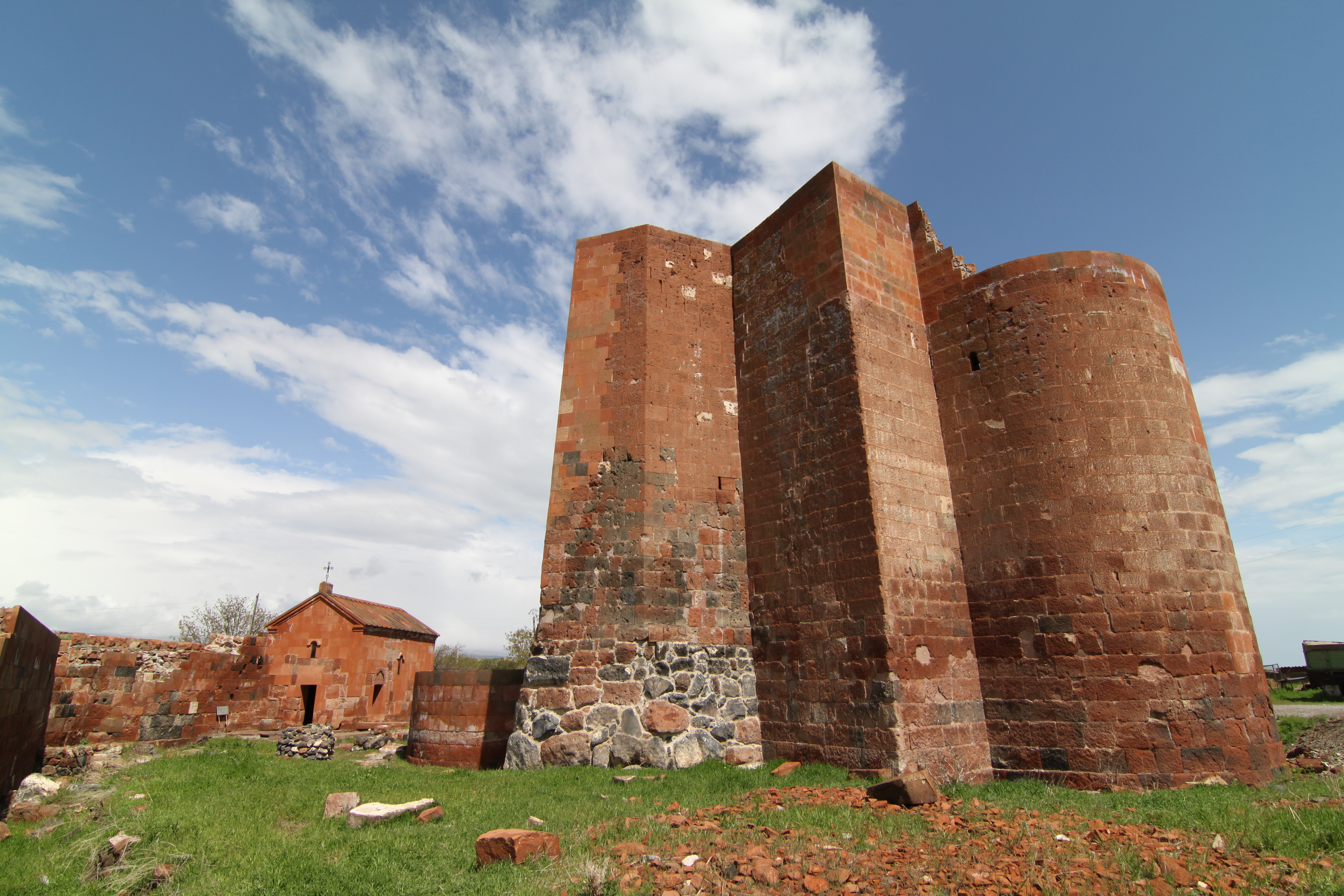 The 10th century keep and chapel inside the Armenian fortress in the town of Dashtadem in Armenia's Aragatsotn Provice.